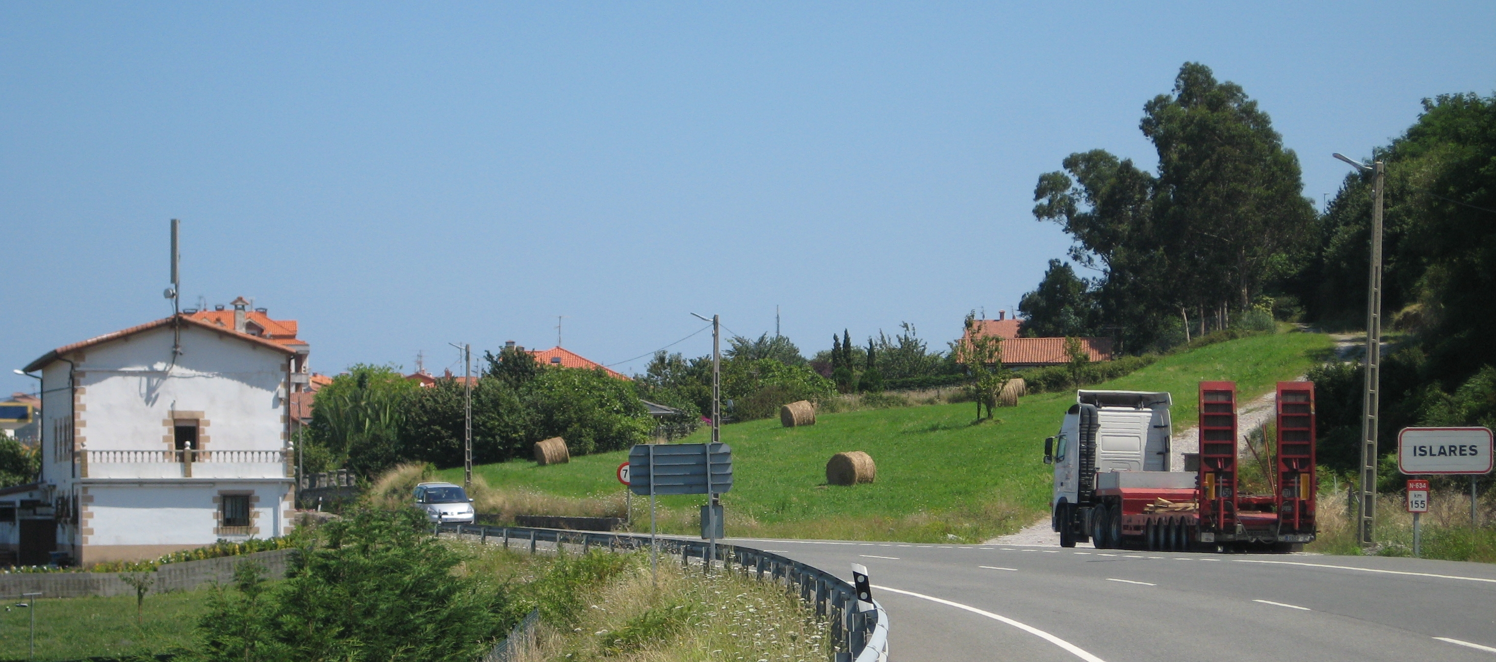 Spanish national road 634 entrying Islares (Castro-Urdiales, Cantabria, Spain) as seen from Arenillas.